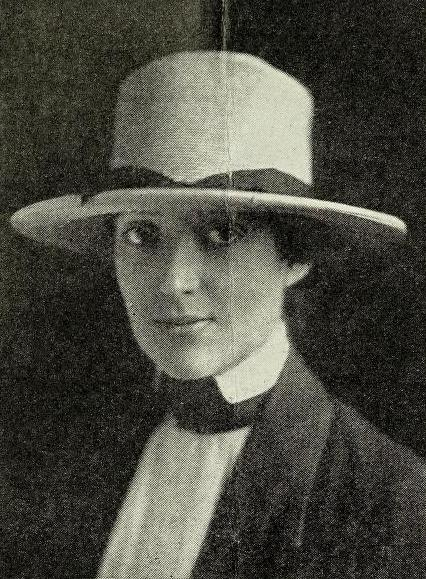 A young white woman wearing a tailored jacket and shirt, and a large brimmed hat.